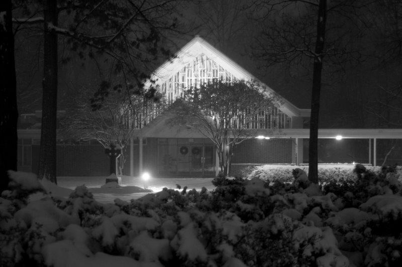 Celtic cross in front on church lawn during snow storm at night